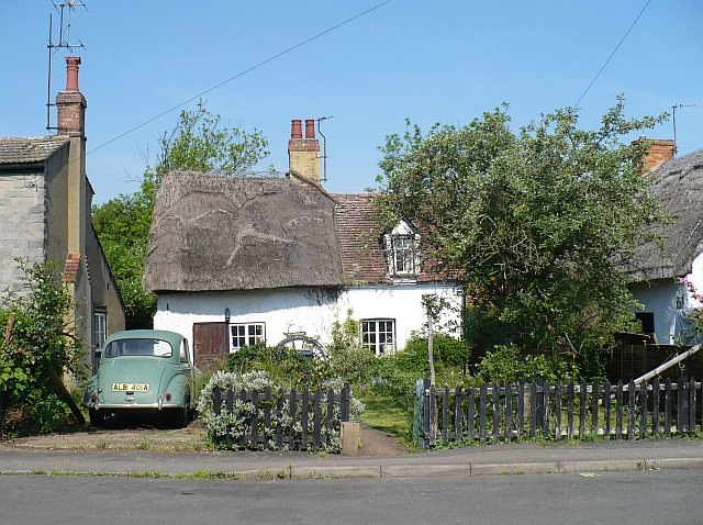 Old Cottages, Wilstead, near to Wilstead, Bedfordshire, Great Britain. The thatched cottage on the left is named 'Winters Moon'.